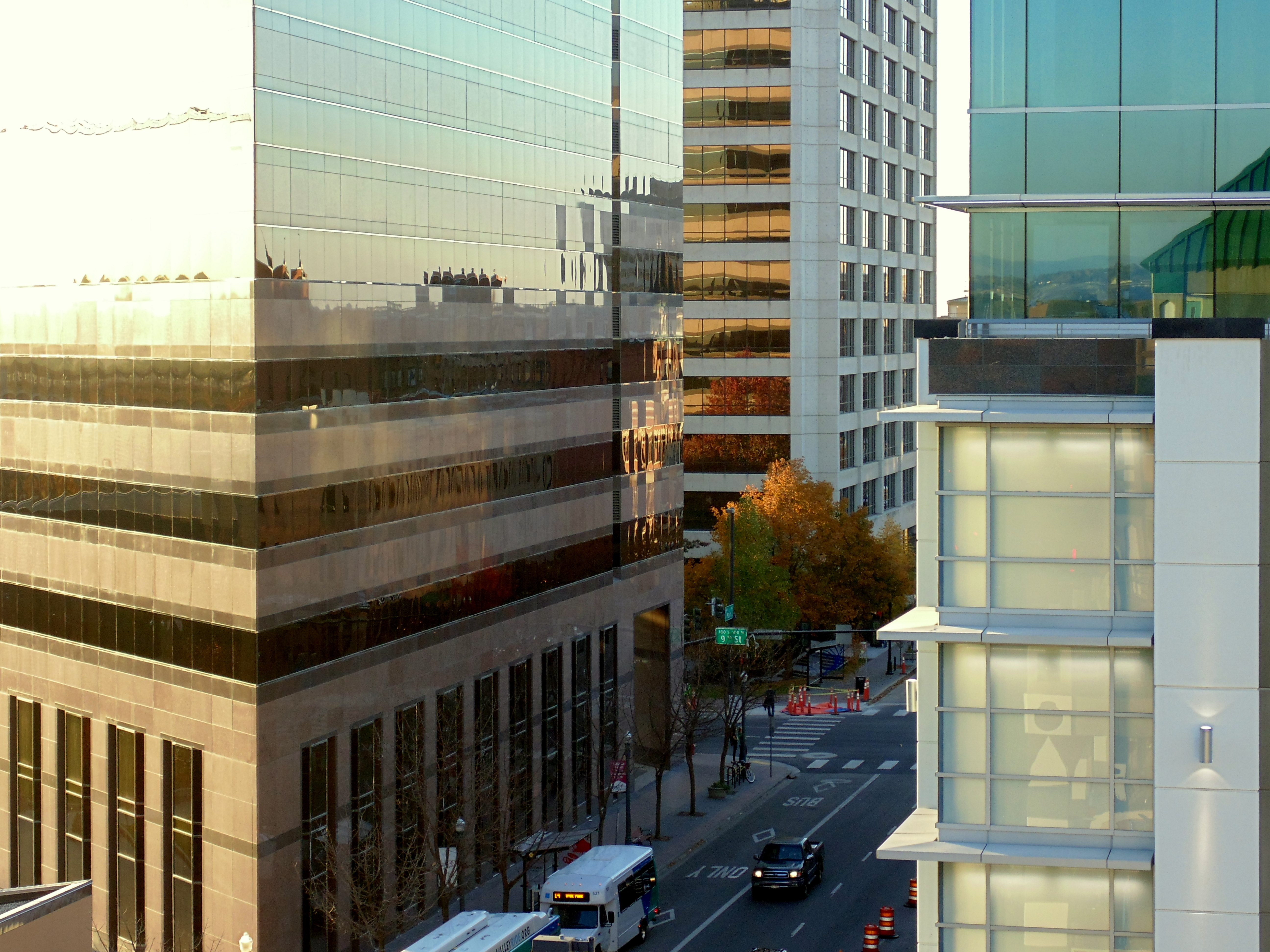 Left: Wells Fargo Building; Background: One Capital Center; Forefront (Right): Zions Bank Building